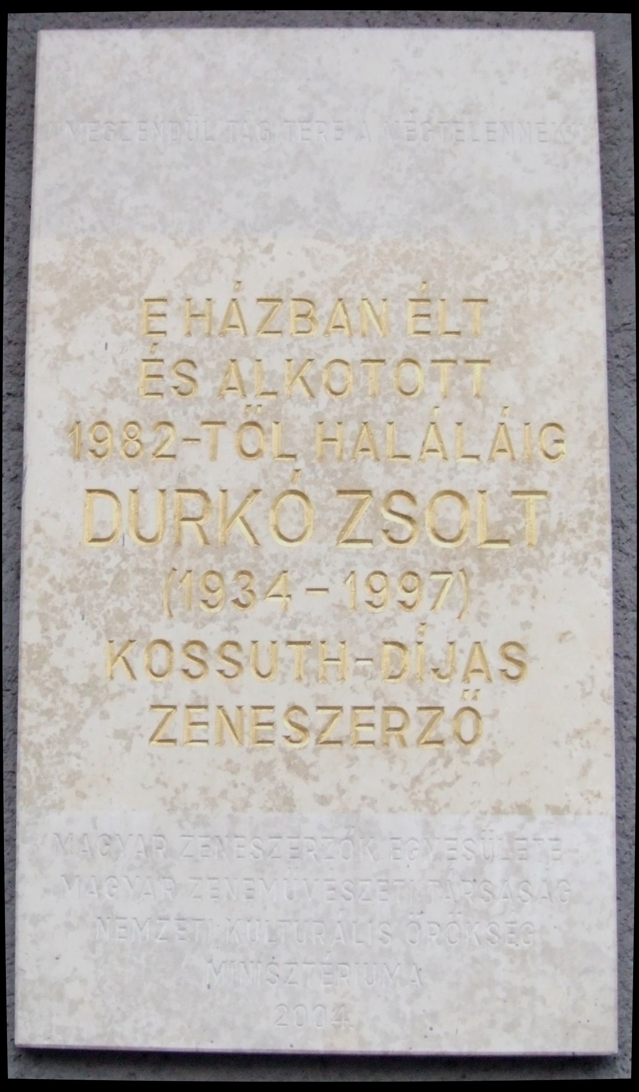 Zsolt Durkó commemorative plaque in Budapest District I, Attila Street No 103